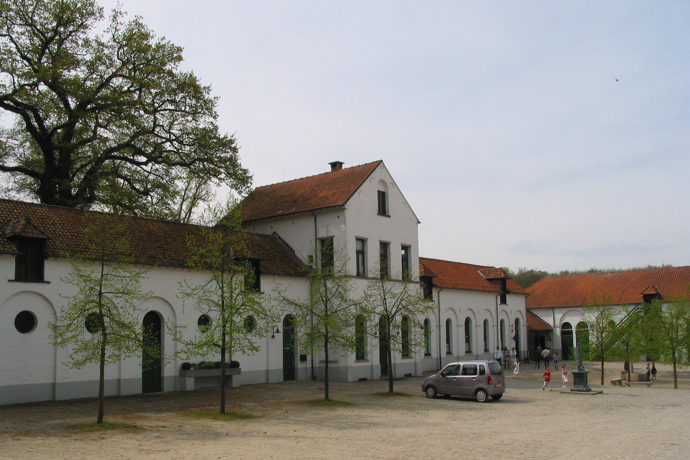 La Hulpe (Belgium), previous farm of the Solvay castle (1833 - architect: Jean-Pierre Cluysenaar).